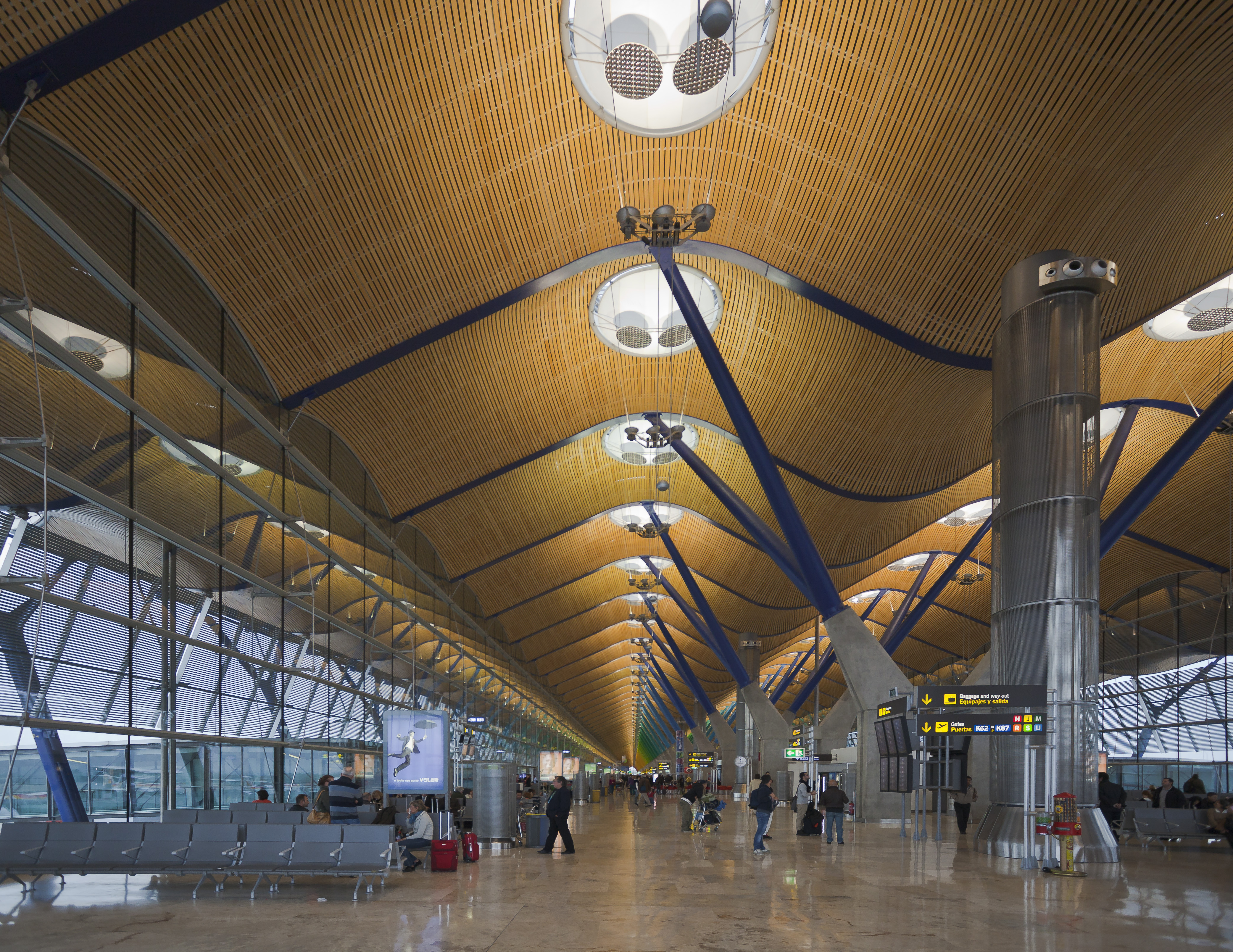 Terminal 4 of the airport Madrid-Barajas, Spain